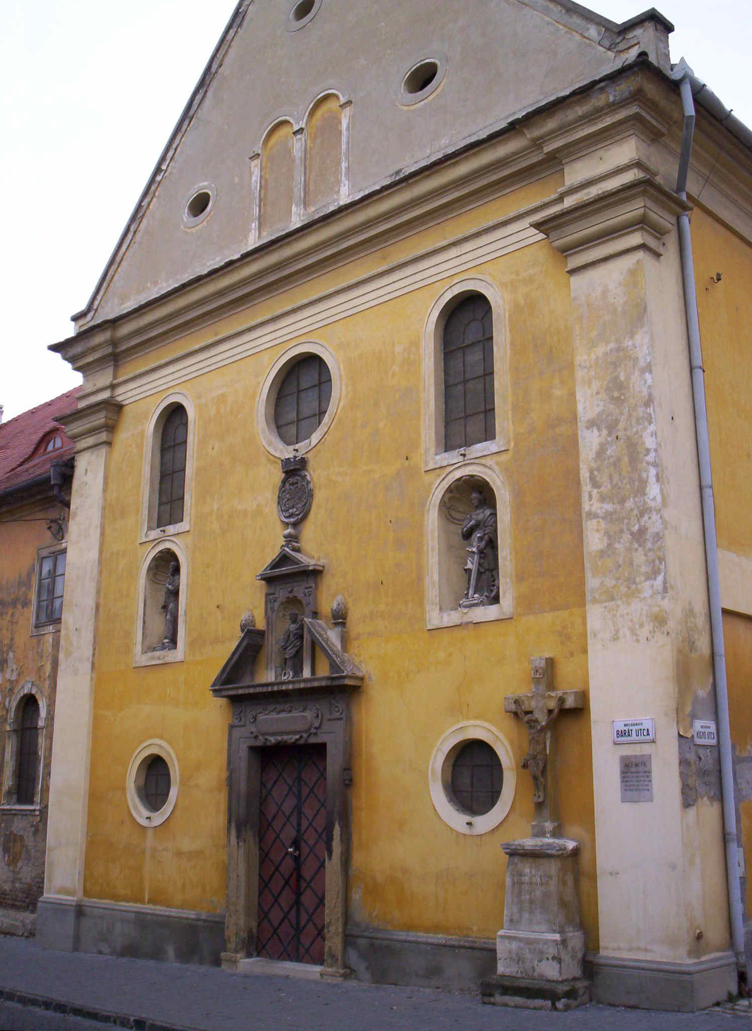 The façade of the Franciscan Church in Pápa, Hungary A pápai Kisboldogasszony ferences templom homlokzata